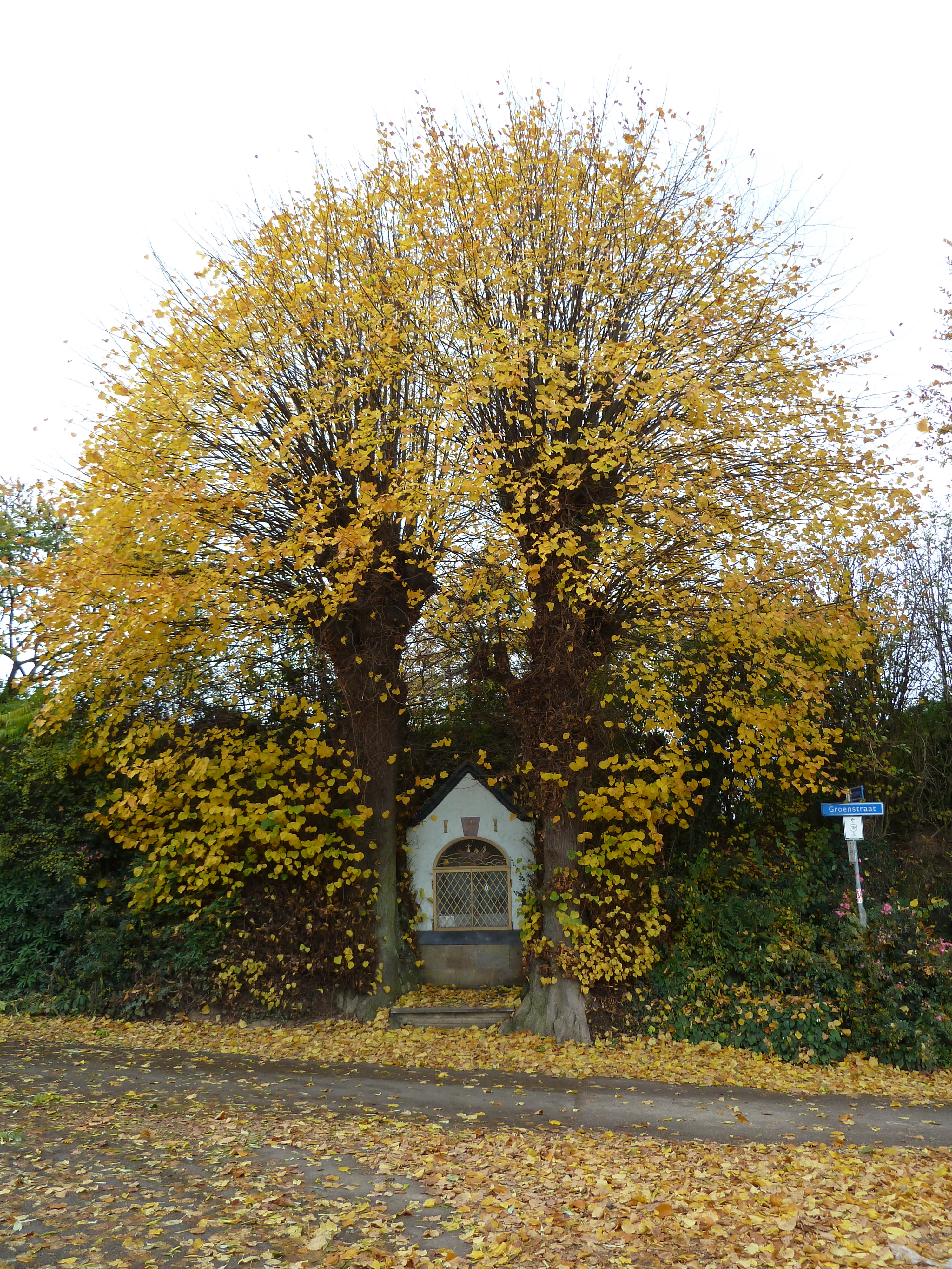 Chapel at crossing Groenstraat-Genzonweg, Ulestraten, Limburg, the Netherlands